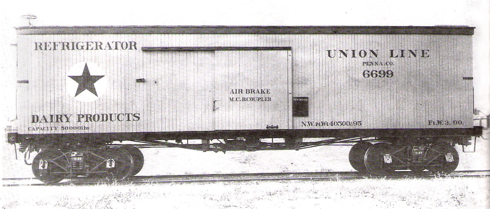 Union Refrigerator Line refrigerator car #1895, used to transport milk, cheese, and eggs. Smithsonian Chaney Neg. 26319 (1895), scanned from The American Railroad Freight Car p. 290.